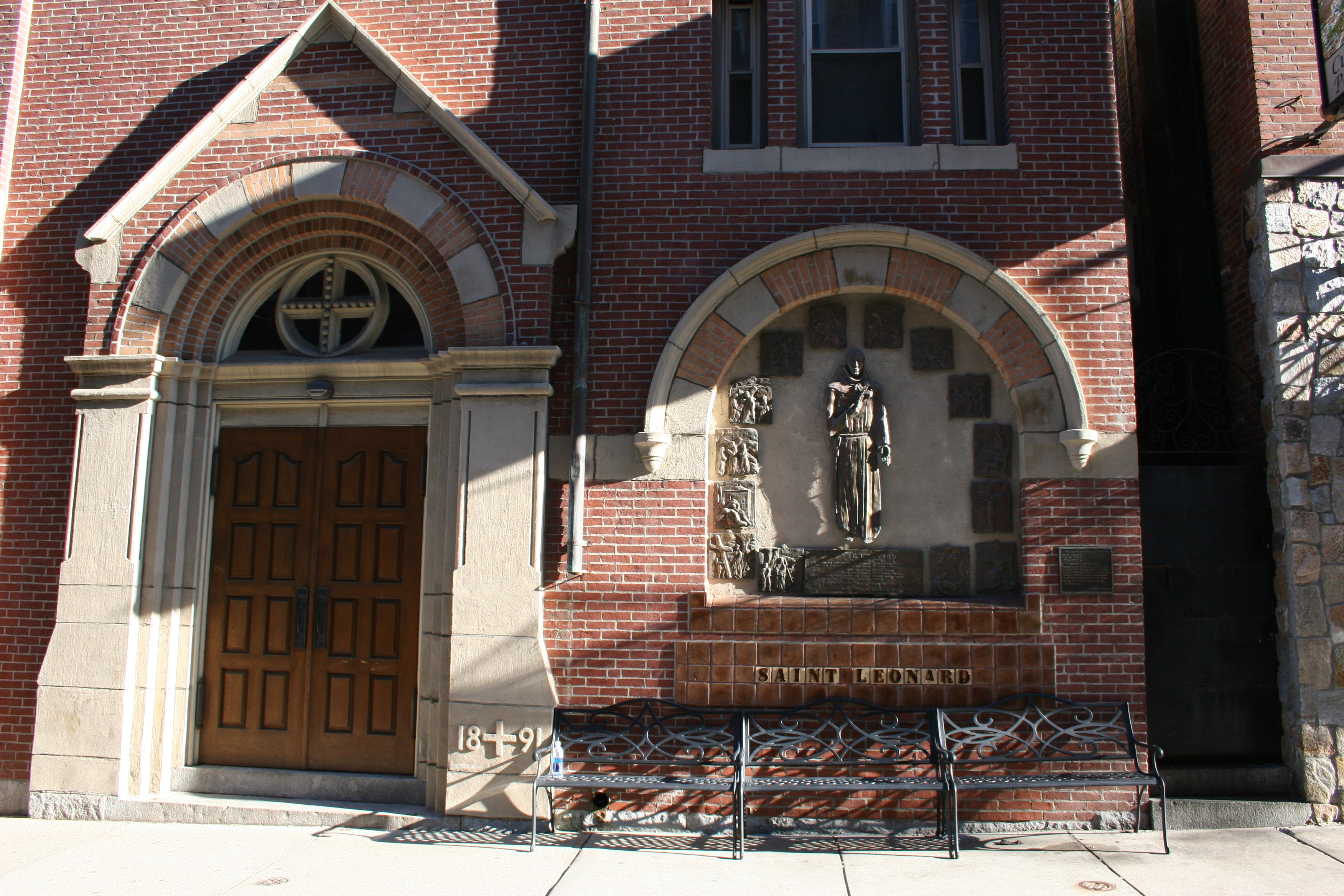 Photograph of Front of Church Featuring Bronze Sculpture of St. Leonard and Stations of the Cross by artist, Richard Aliberti.